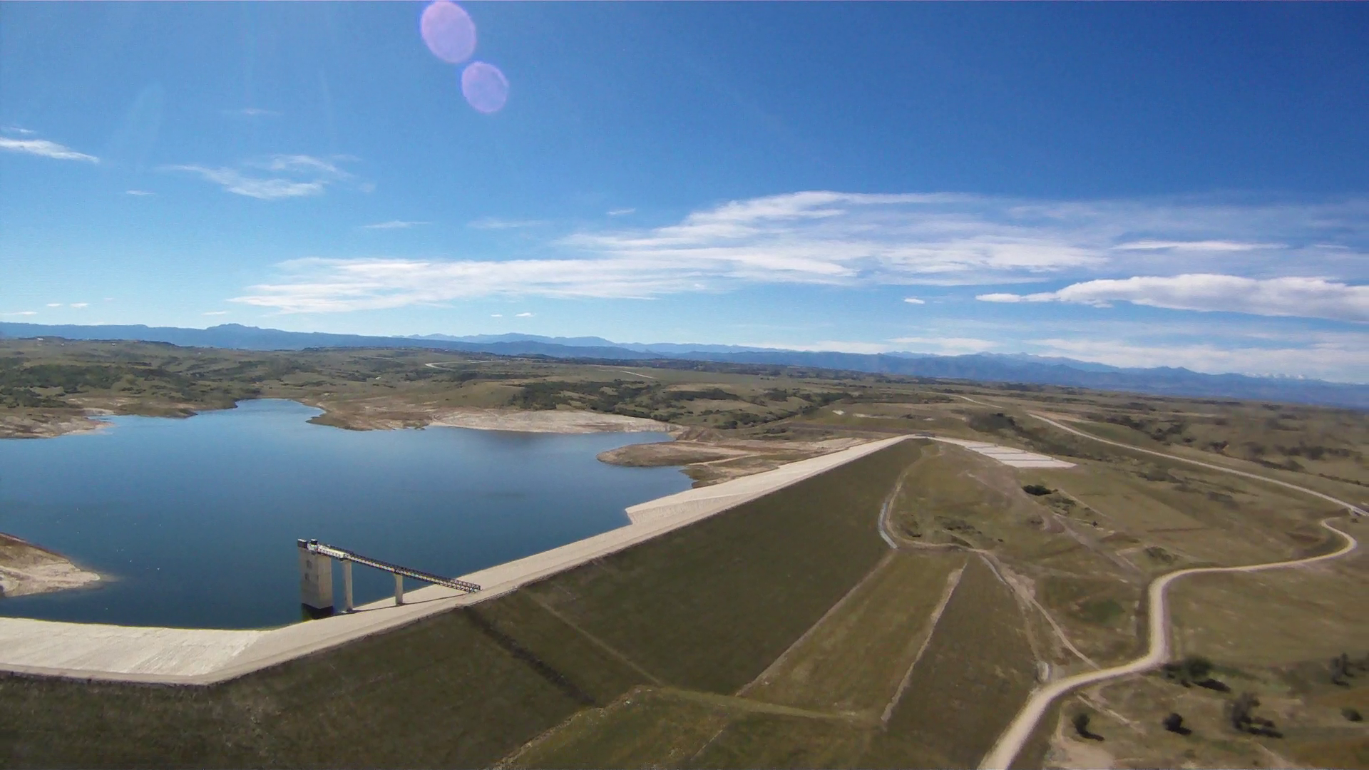 Aerial view of the Rueter-Hess Reservoir in September 2013, captured by a First Person View remote-control airplane.